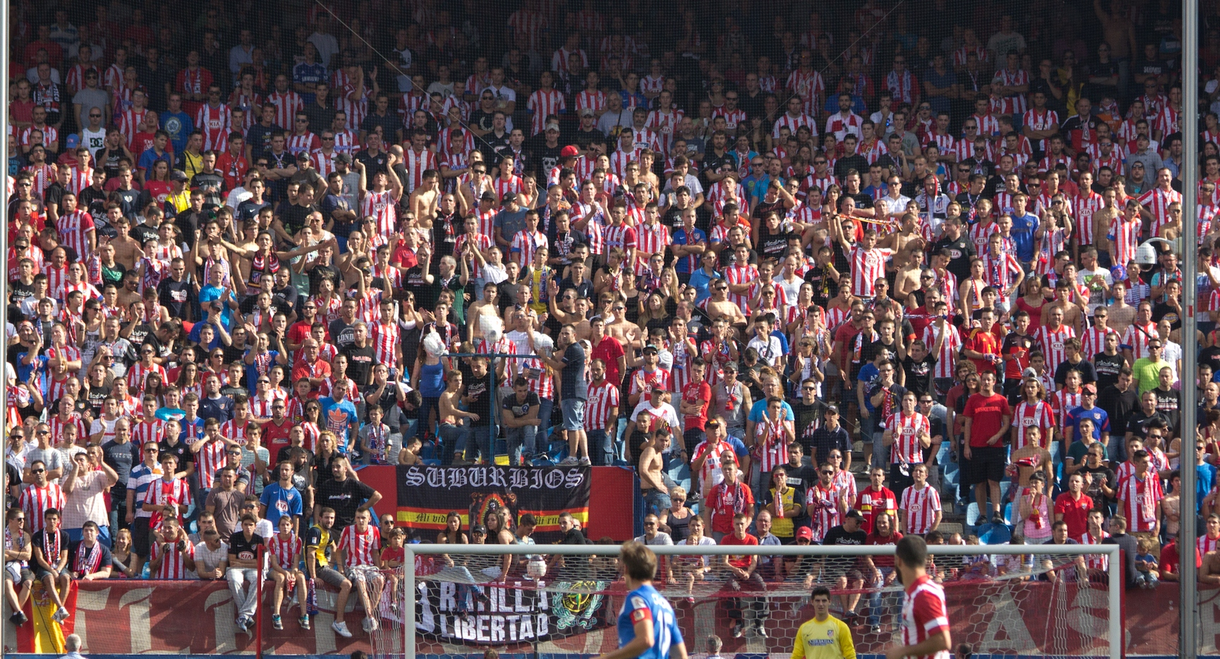 Fans of Atlético de Madrid ("Carlos Delgado; CC-BY-SA").